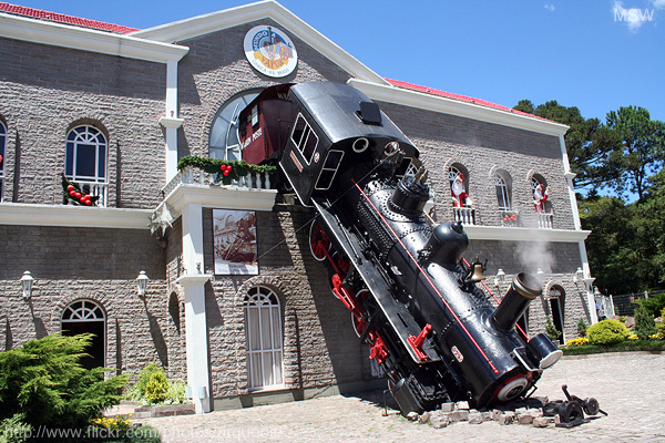 Reconstruction of the Montparnasse Crash of 1895 at Mundo a Vapor em Canela, RS, Brasil The original crash at Montparnasse.